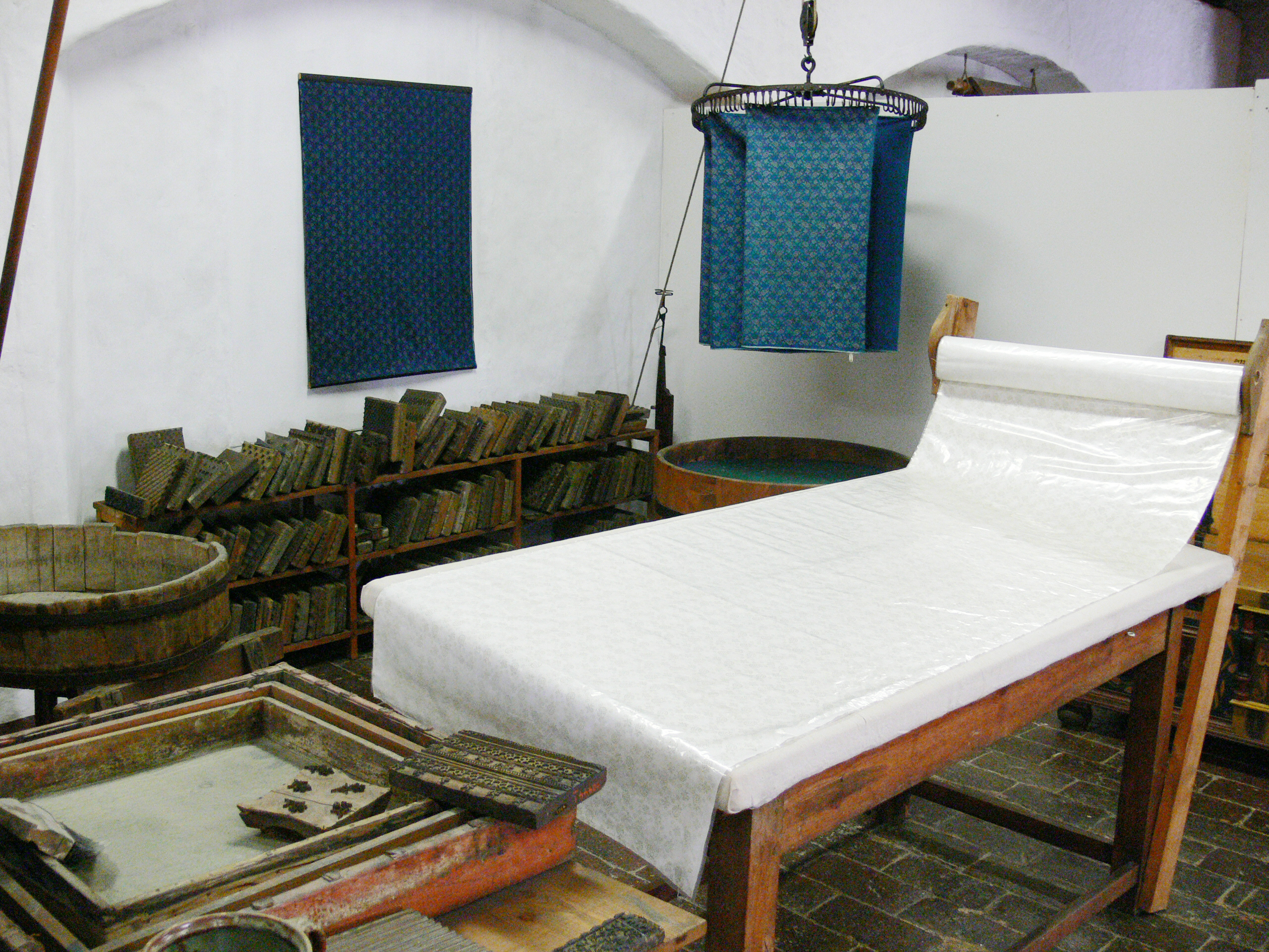 Dyeing workshop. Museum für Thüringer Volkskunde, Erfurt, Germany.